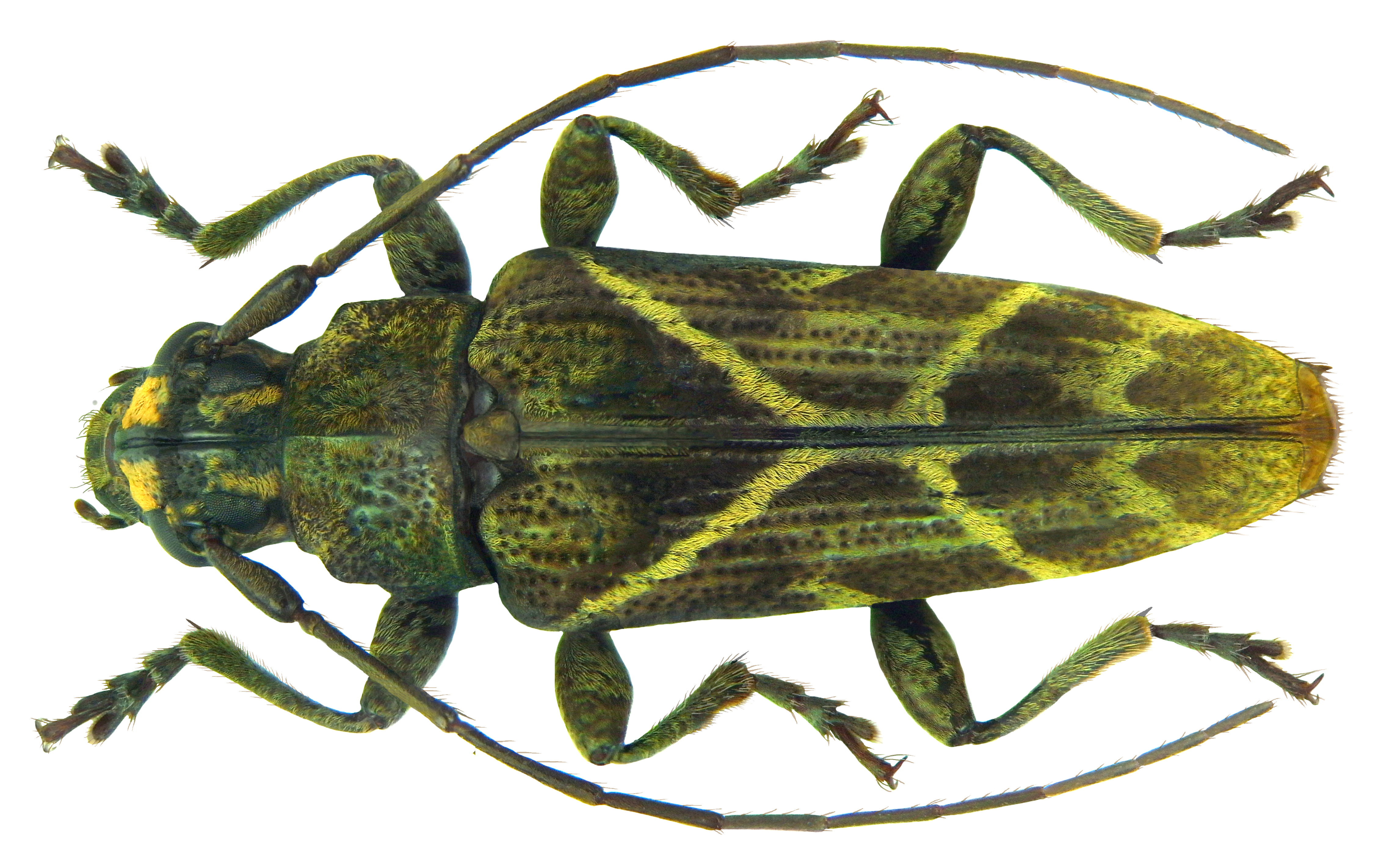 Family: Cerambycidae Size: 16.3 mm Location: Indonesia, West Papua, Kaimana, Triton Bay A.Skale leg, 6.II.2011; det. A.Weigel, 2011 Photo: U.Schmidt, 2012